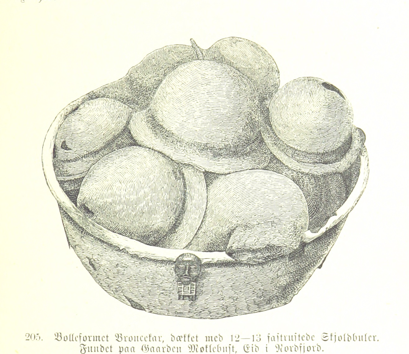 Drawing of a basket of shield bosses found within the Myklebust viking ship in Nordfjordeid, Norway, from the Illustreret Norges historie (1885). The grave mound "Rundehogjen" or "Lorange's mound" in Nordfjordeid conceiled the burned remains of the "Myklebust" ship, excavated in 1874. Among artifacts found in the center of the mound, was a bronze pan and a pile of iron bulges from shields.